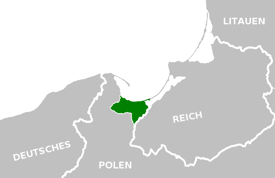 locator map of Free City of Gdańsk (i.e. Freie Stadt Danzig/Wolne Miasto Gdańsk) 1923-1939, inscriptions in German language